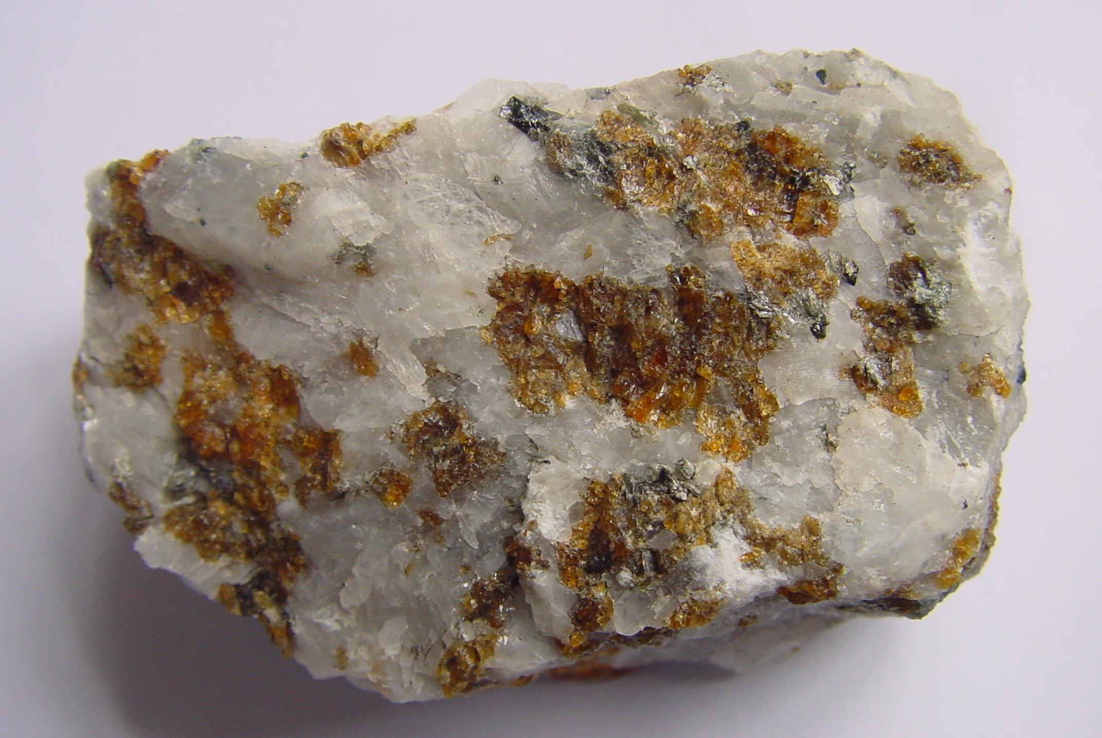 Chondrodite from Franklin, New Jersey, USA. Specimen size 5 cm